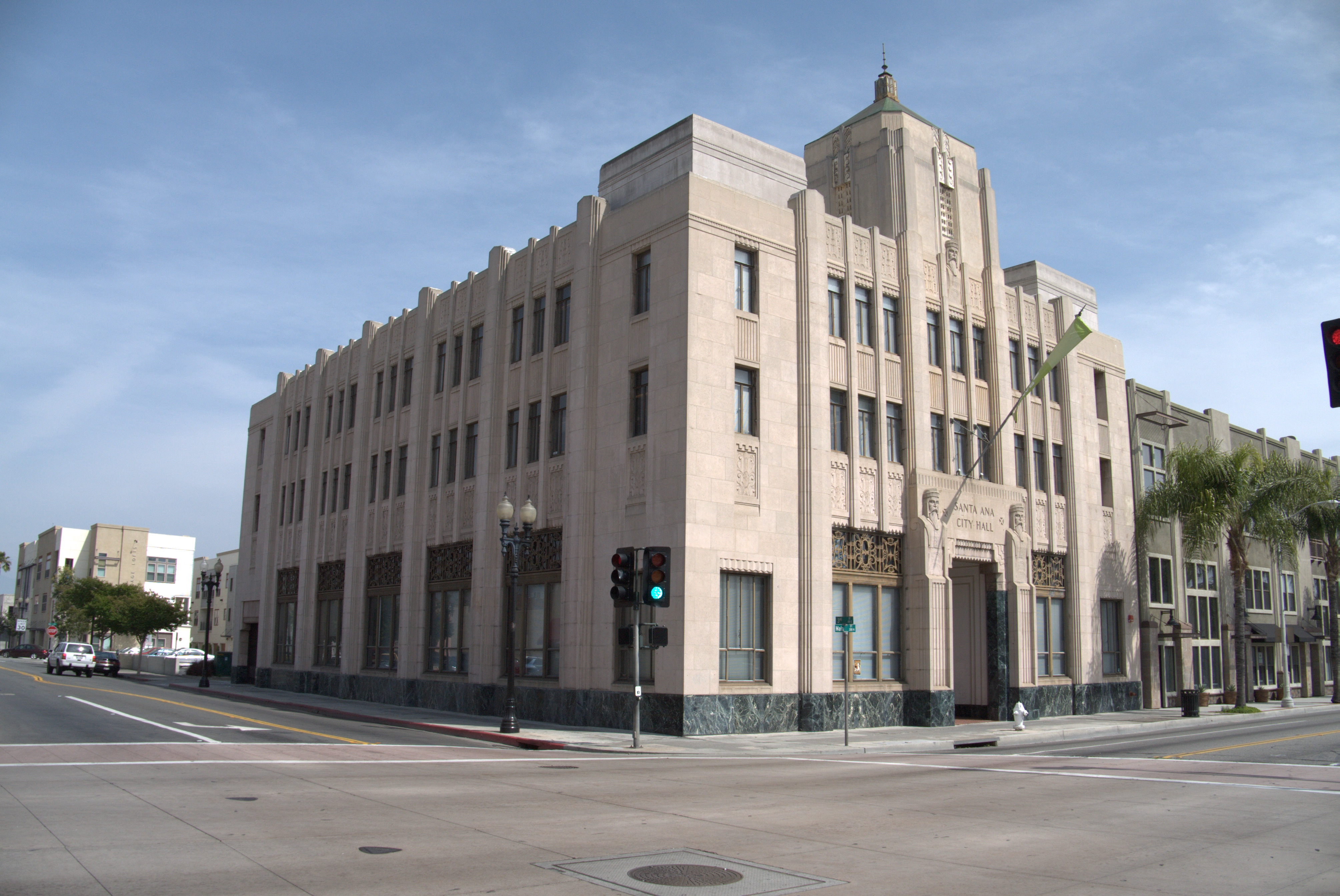 Santa Ana City Hall Built in 1935 on the southeast corner of Main and Third Streets with funds from a city bond and a grant from the Works Progress Administration, *The Old Santa Ana City Hall is a three-story Art Deco-style concrete building.